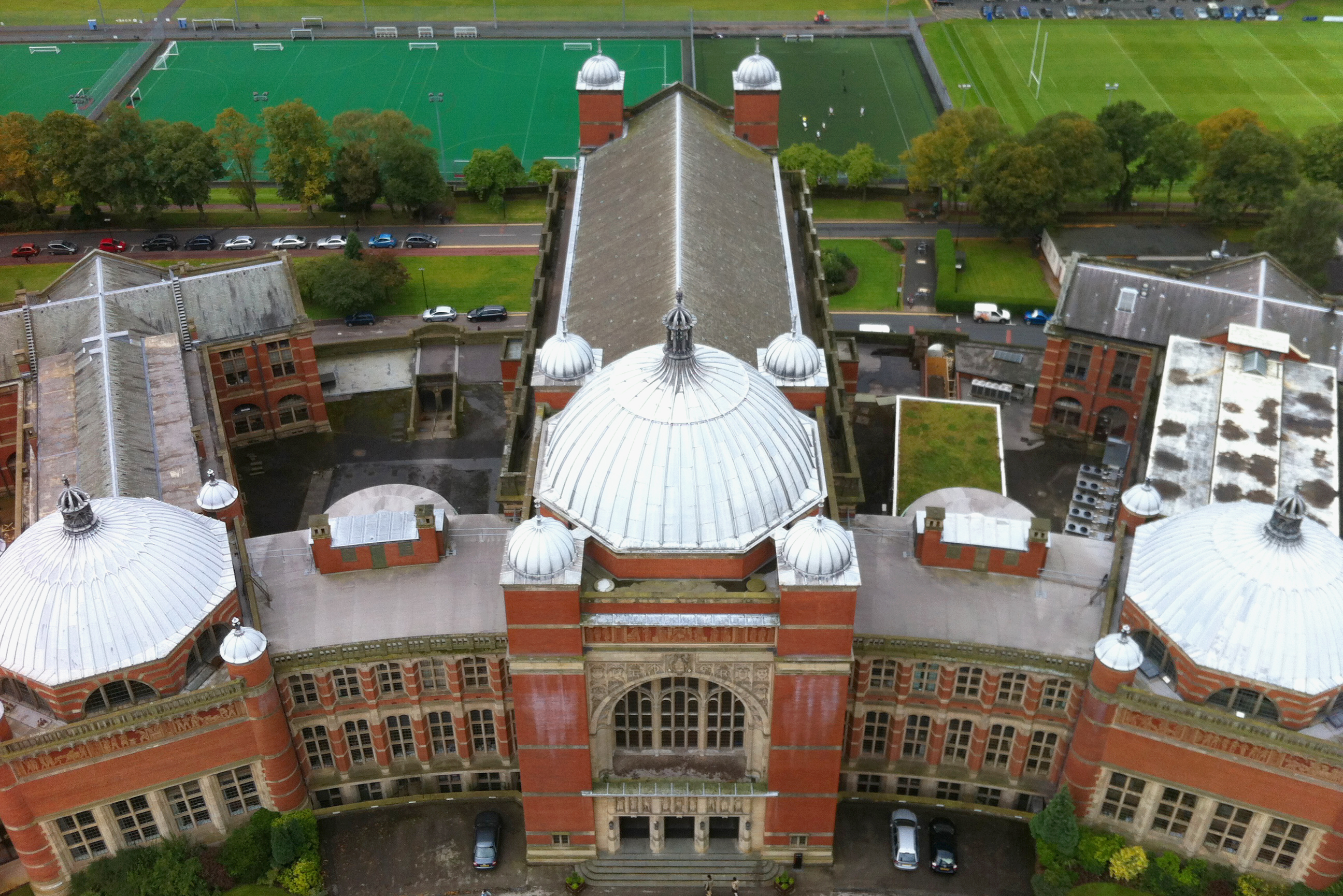 View of the UOB Aston Webb building looking from the south side of the Clock Tower